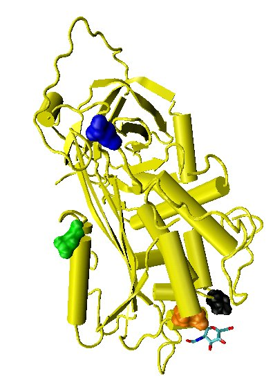 This image was created using a combination of VMD and GIMP.